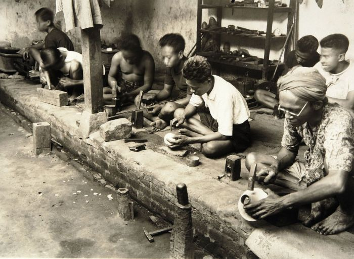 Silver smithy at Kotagede or Yogyakarta